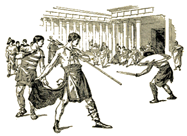 This elementary history of Rome presents short stories of the great heroes, mythical and historical, from Aeneas and the founding of Rome to the fall of the western empire. Around the famous characters of Rome are graphically grouped the great events with which their names will forever stand connected. Vivid descriptions bring to life the events narrated, making history attractive to the young, and awakening their enthusiasm for further reading and study.